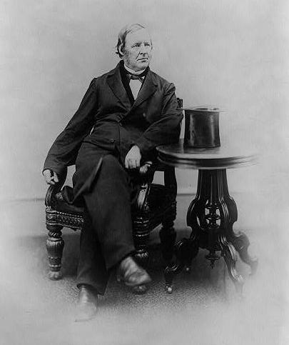 Hugh McCulloch, Secretary of the U.S. Treasury.